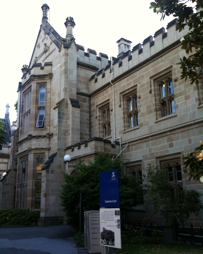 The Old Arts Building of the University of Melbourne.